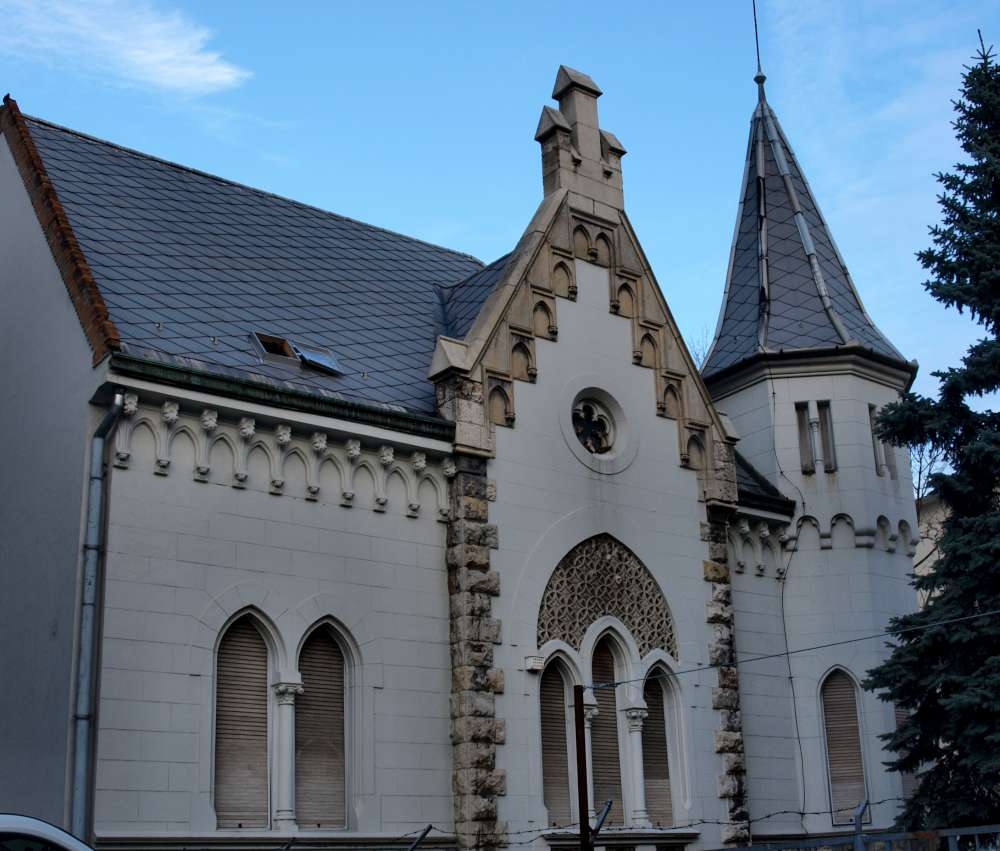 Building of the Museum Pesterzsébet